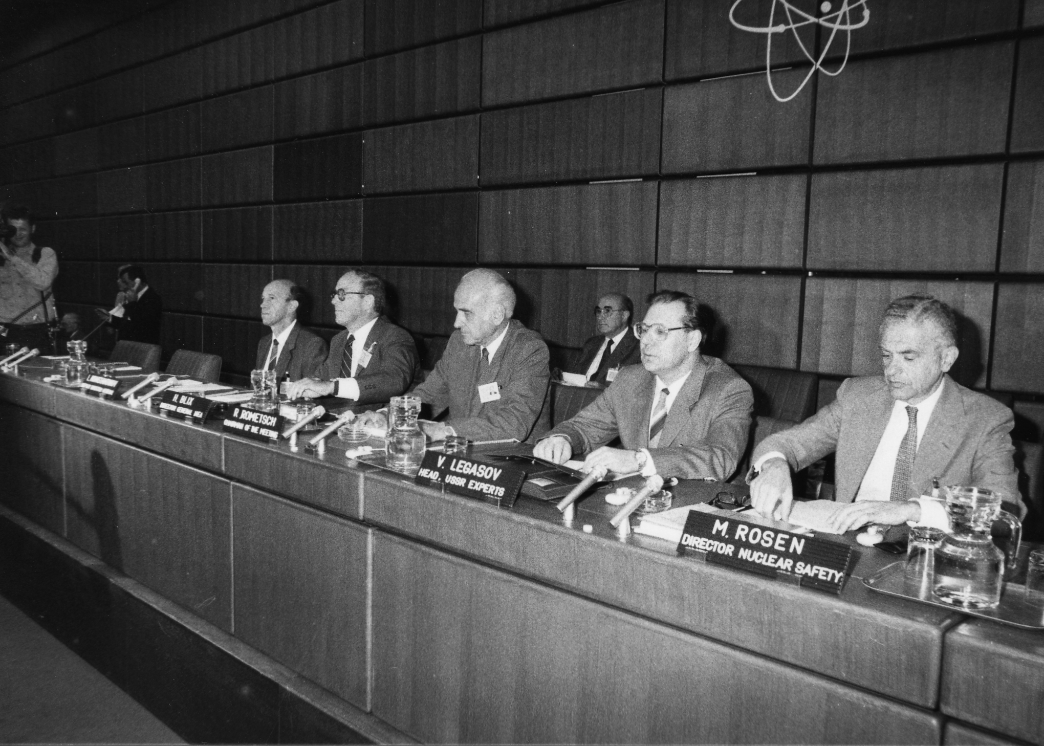 Press conference held during the Chernobyl Post- Accident Review Meeting from 25-29 August 1986. (IAEA Boardroom, Vienna, Austria) Copyright: IAEA Imagebank Photo Credit: IAEA